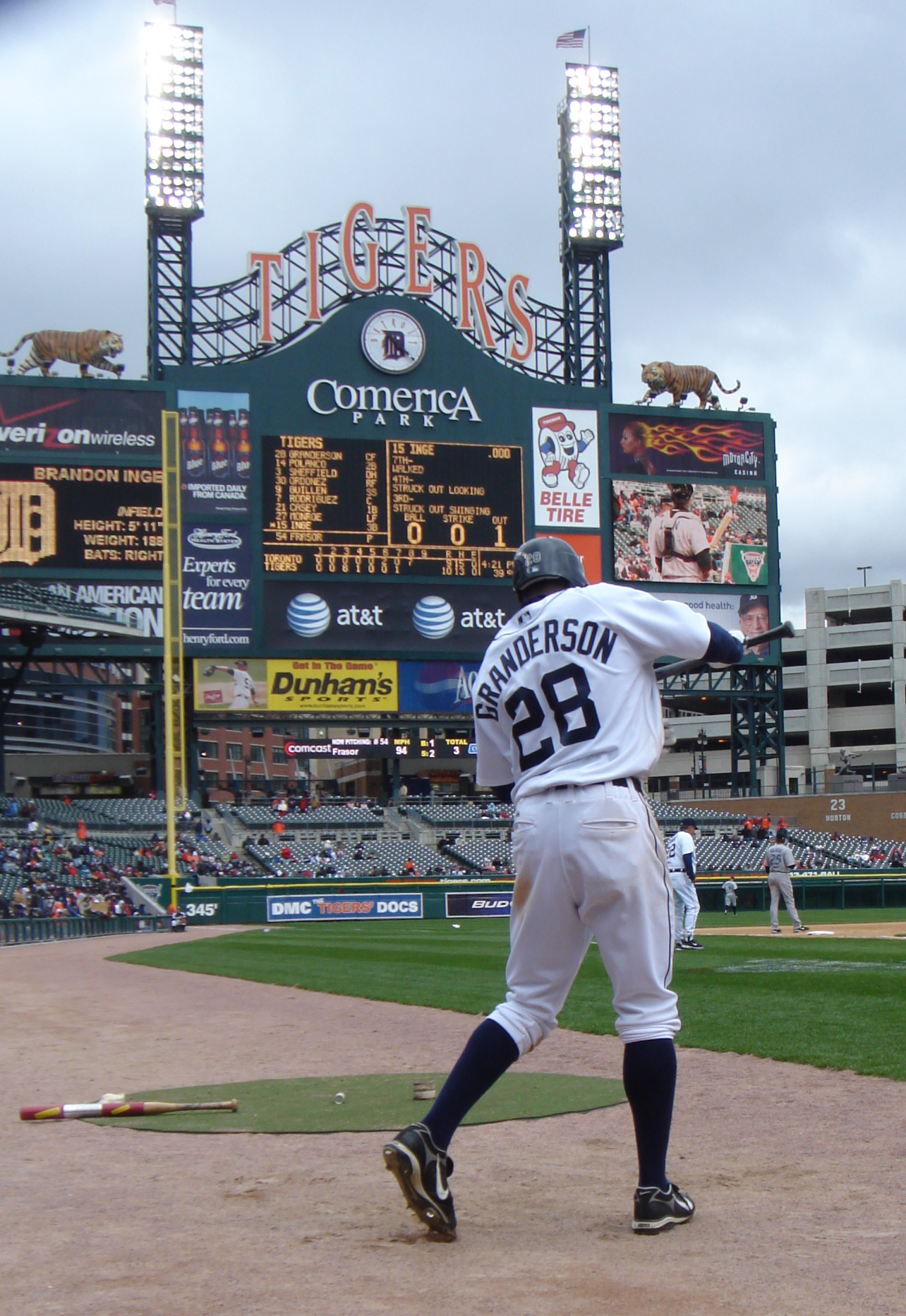 Curtis Granderson on deck against the Toronto Blue Jays on April 4, 2007. I took this picture myself. 21:01, 26 June 2007 . . TheKuLeR . . 1284×1864 (1,804,218 bytes)